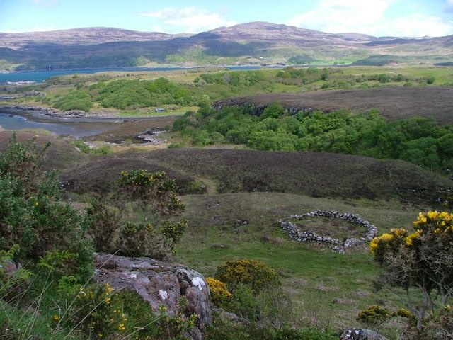 Sheepfold Above Soriby Bay With views across Loch Tuath to the mainland. To the left on the mainland can just be made out the dramatic waterfall Eas Fors on the neighbouring Isle of Mull. Isle of Ulva, Inner Hebrides.